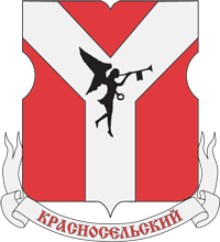 Krasnoselsky (rayon of Moscow), coat of arms